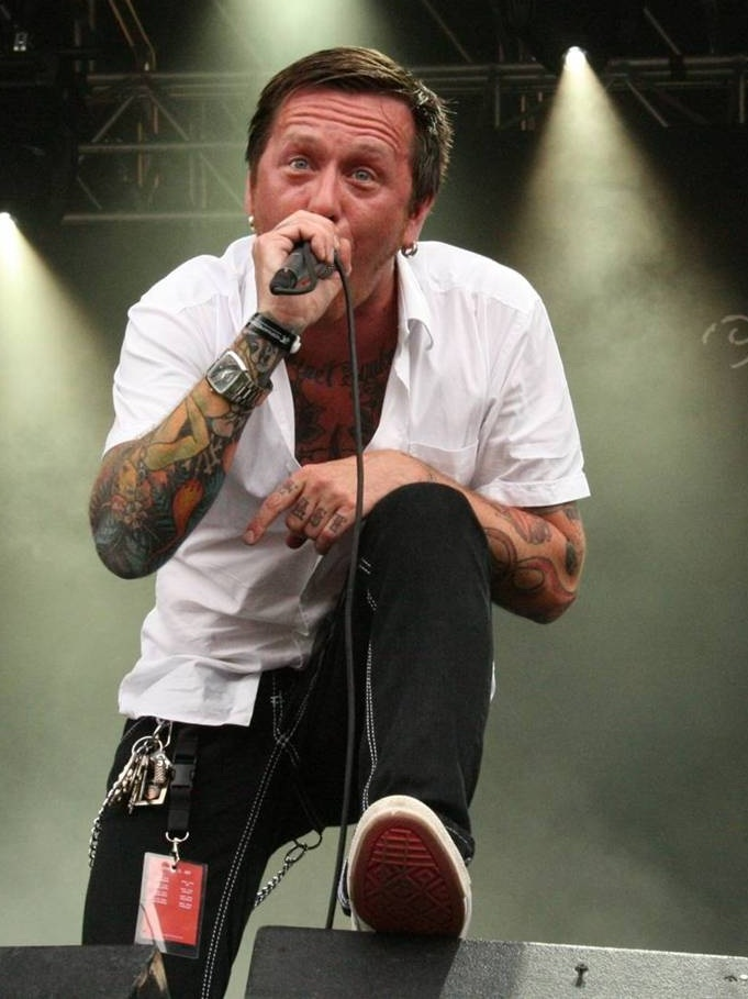 Audrey Horne (singer is Torkjell Rød) at Norway Rock Festival 2008